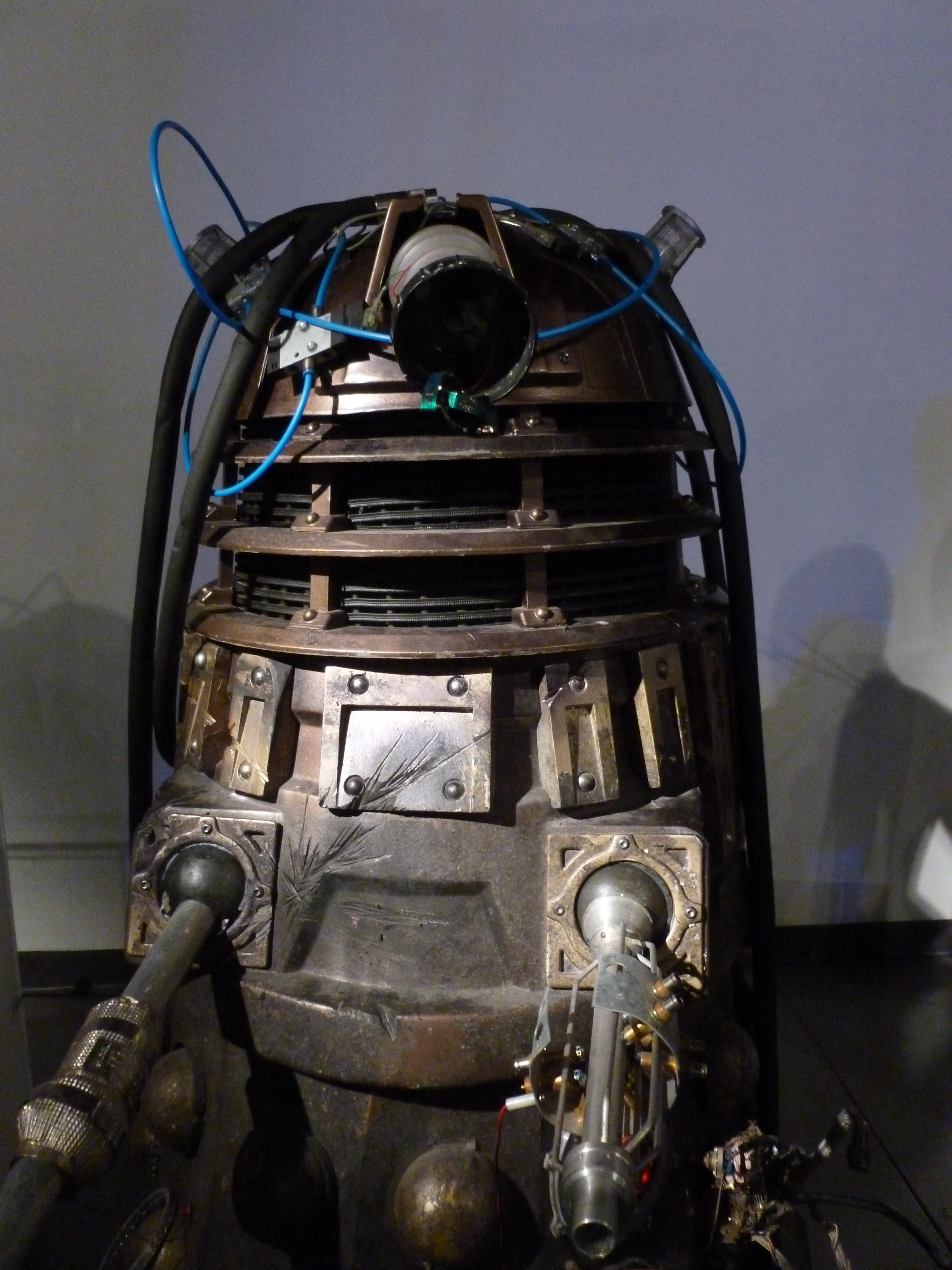 Cardiff, Wales Doctor Who Experience